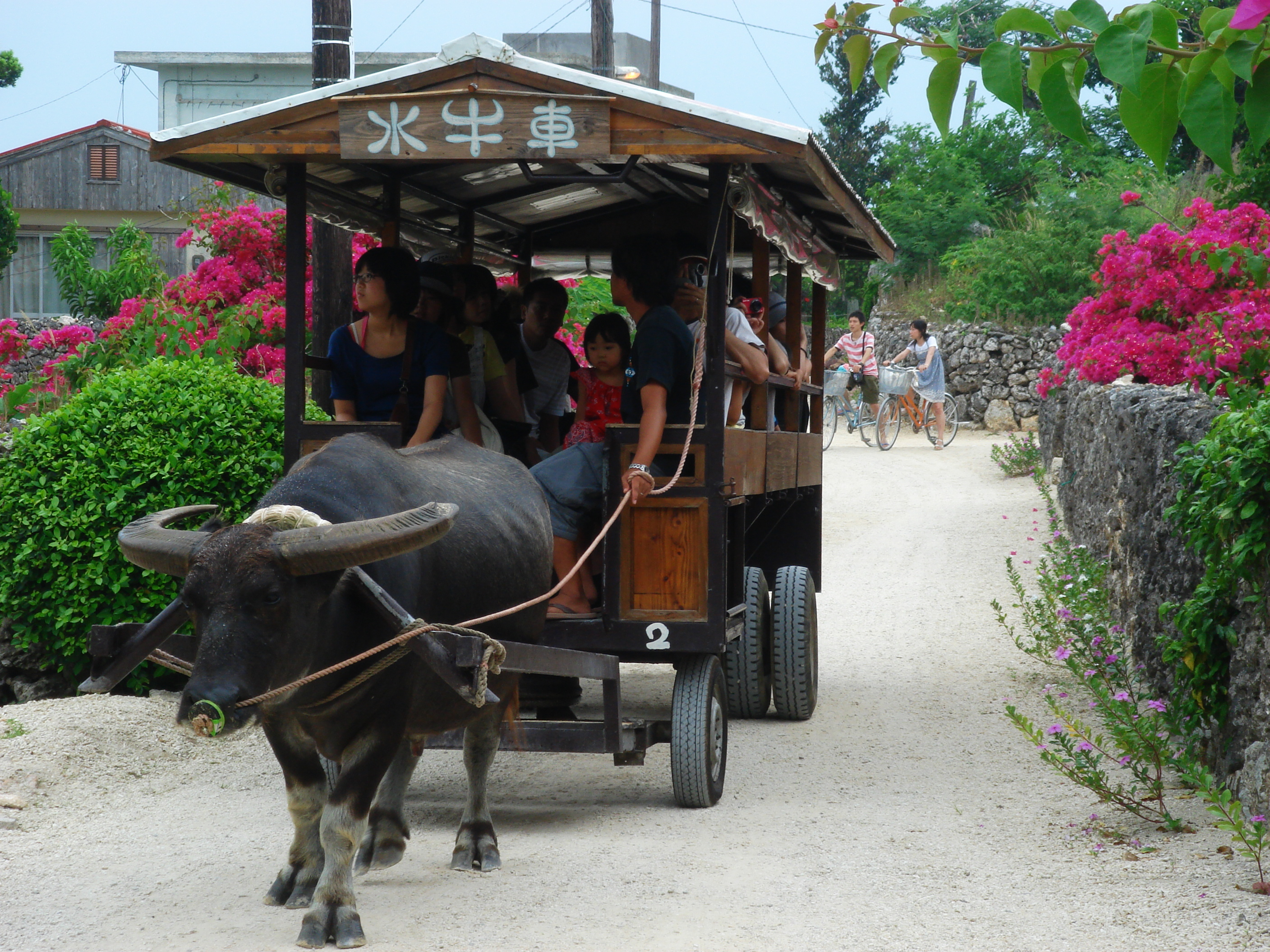 水牛(water buffalo) + 車(car) = 水牛車 means water buffalo taxi. It works as a taxi in Taketomi-jima Island. But much slower than walking people. at Taketomi-jima Island, Okinawa, JAPAN (Sony Cyber-shot T9)